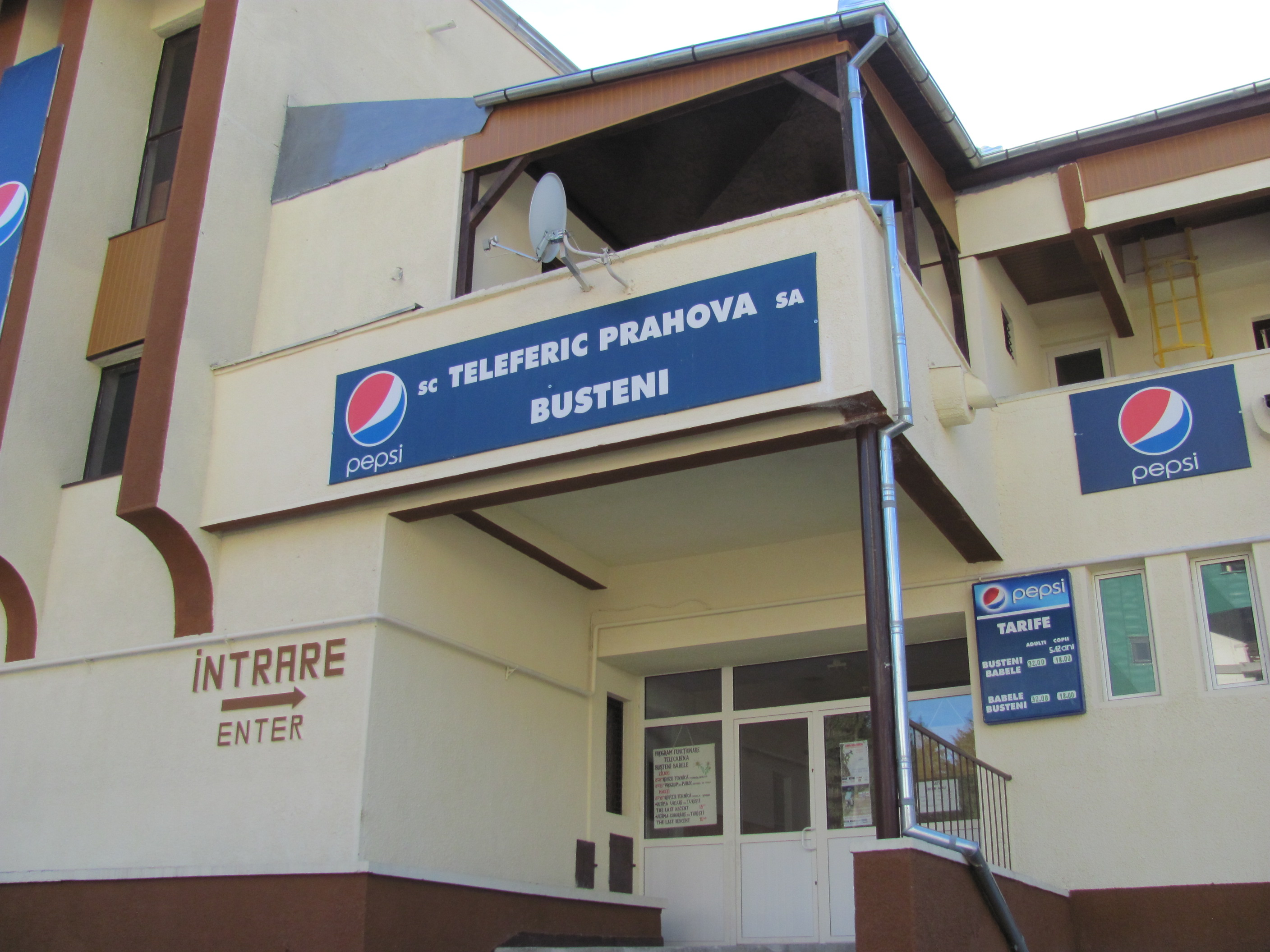 Entrance to Busteni-Babele Cablecar